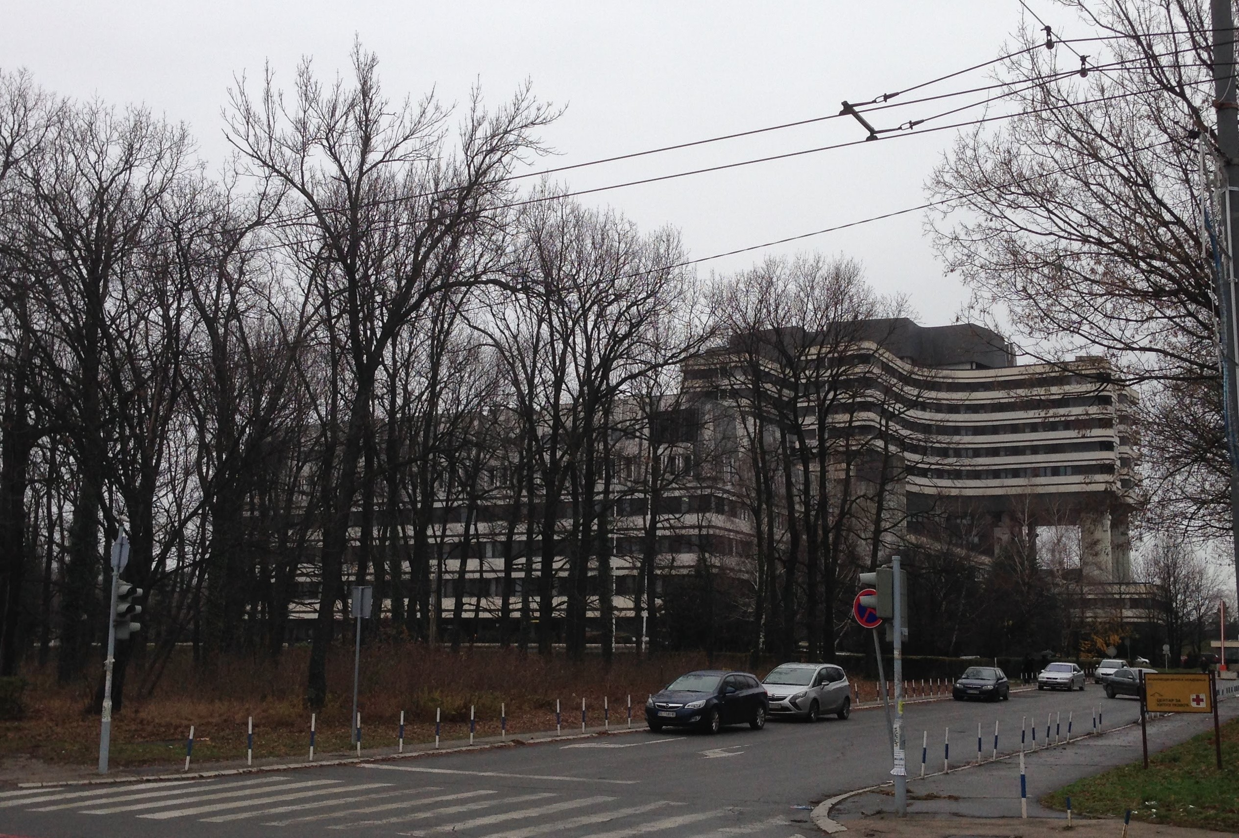 Military Medical Academy | 17 Crnotravska St, Belgrade, Serbia